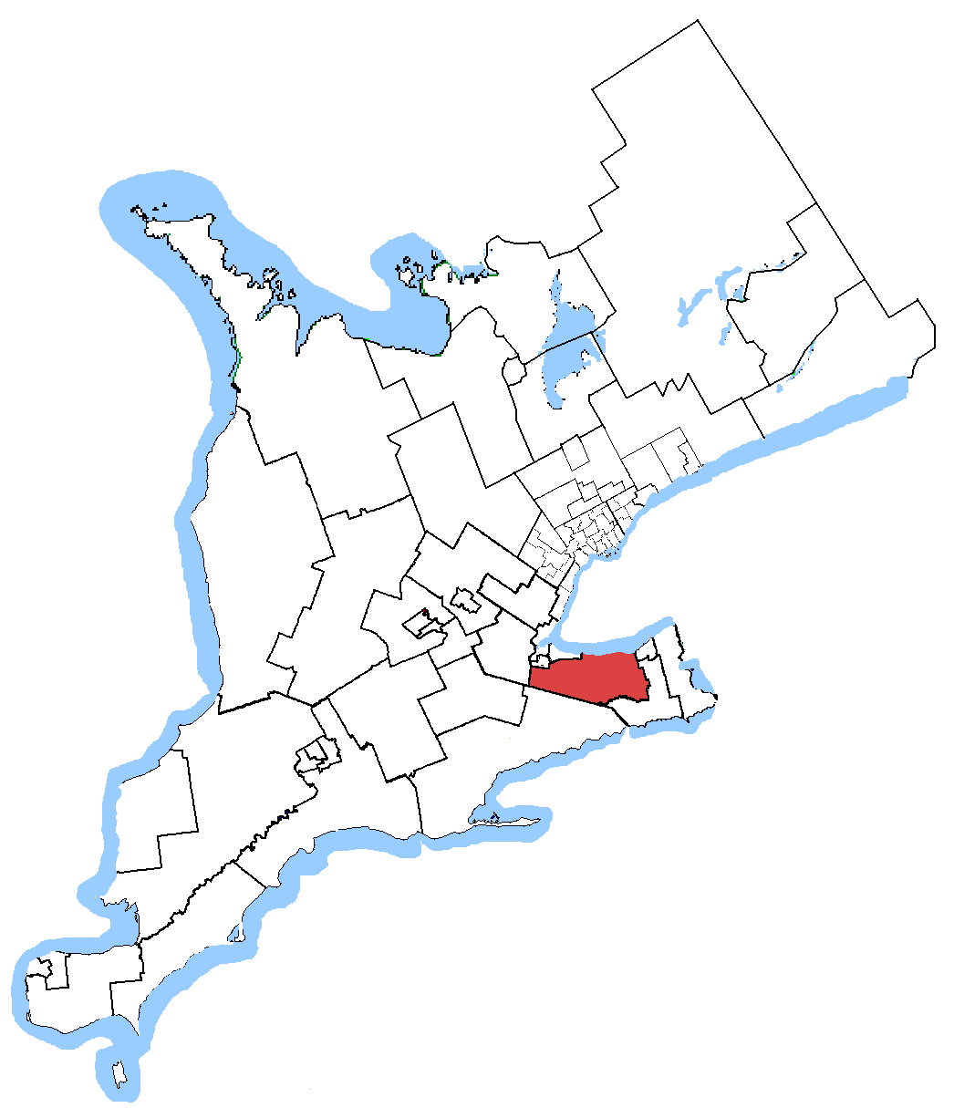 Map of the Niagara West—Glanbrook electoral district. Based on Earl Andrew's maps, created by SimonP.